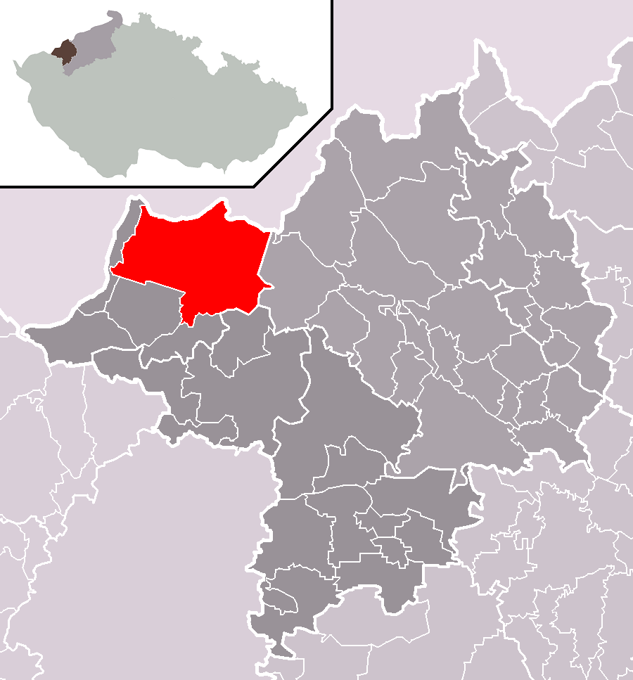 Location of Kryštofovy Hamry municipality within Chomutov District and administrative area of Kadaň as a Municipality with Extended Competence.